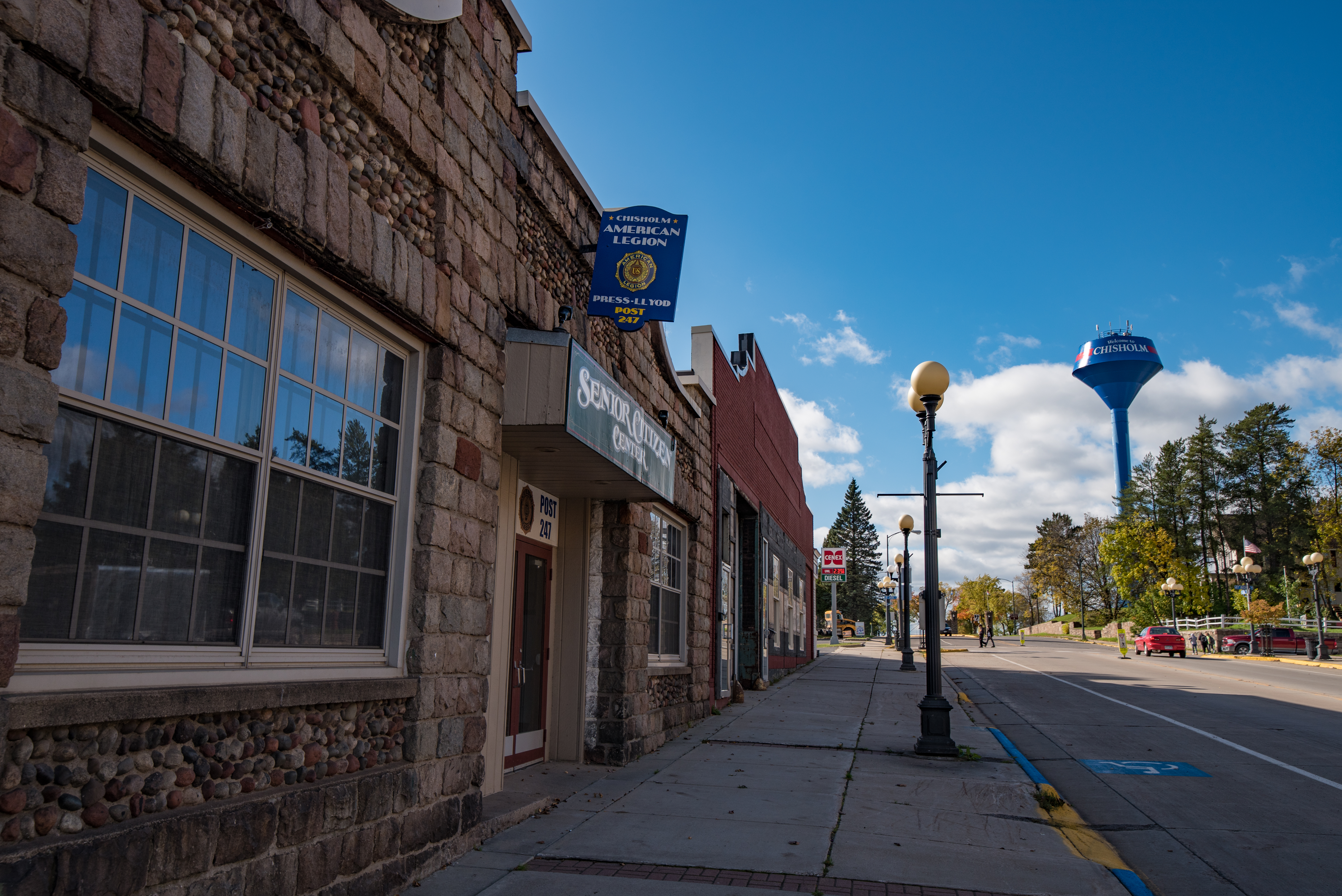 Lake Street in downtown Chisholm, Minnesota, with the City of Chisholm water tower in the distance.